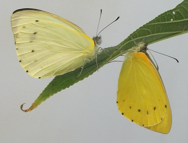 Dixeia pigea females, from Amanzimtoti, South Africa